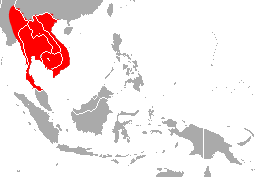 Malayan Horseshoe Bat (Rhinolophus malayanus) range